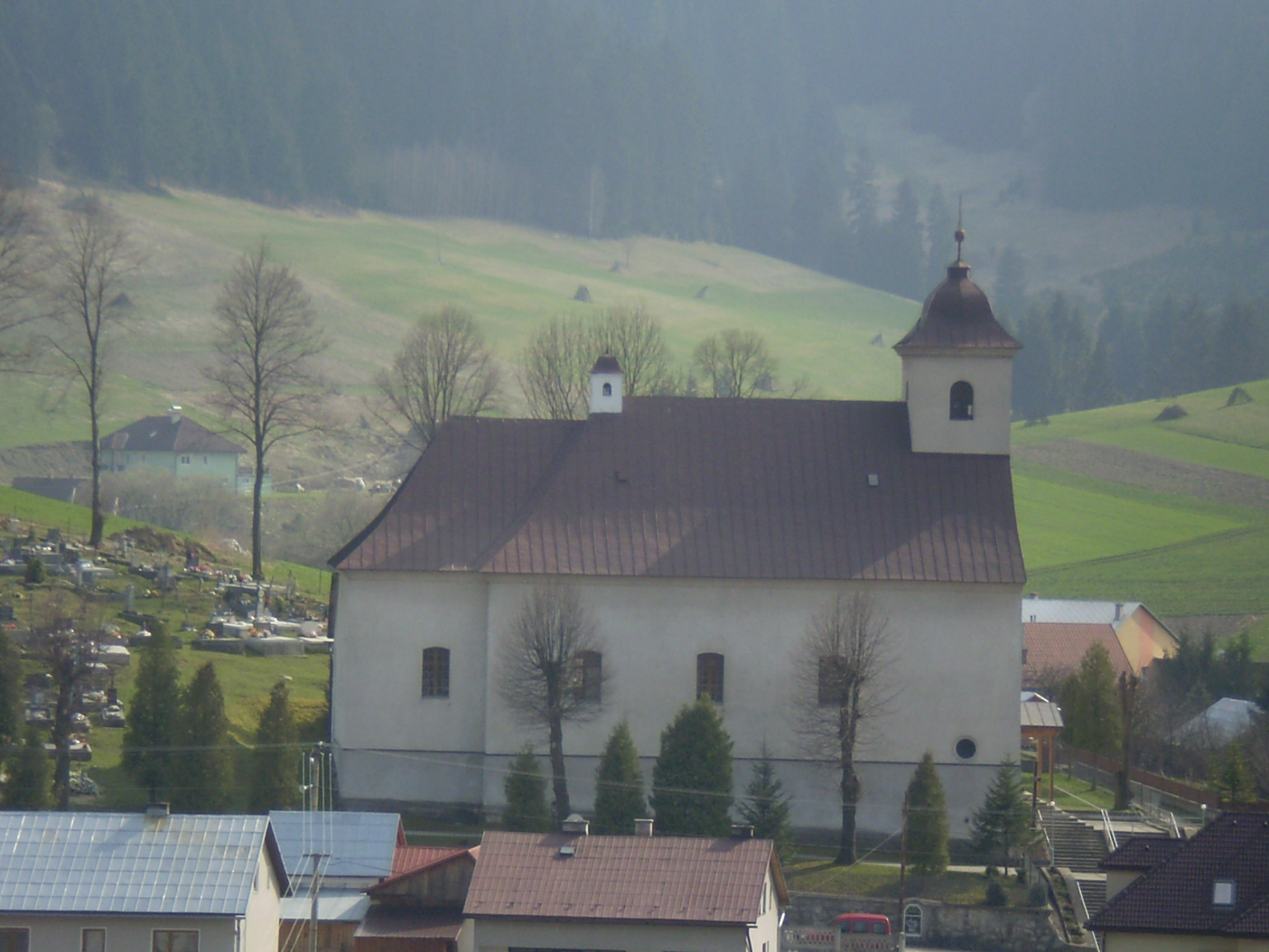 church in village Pucov